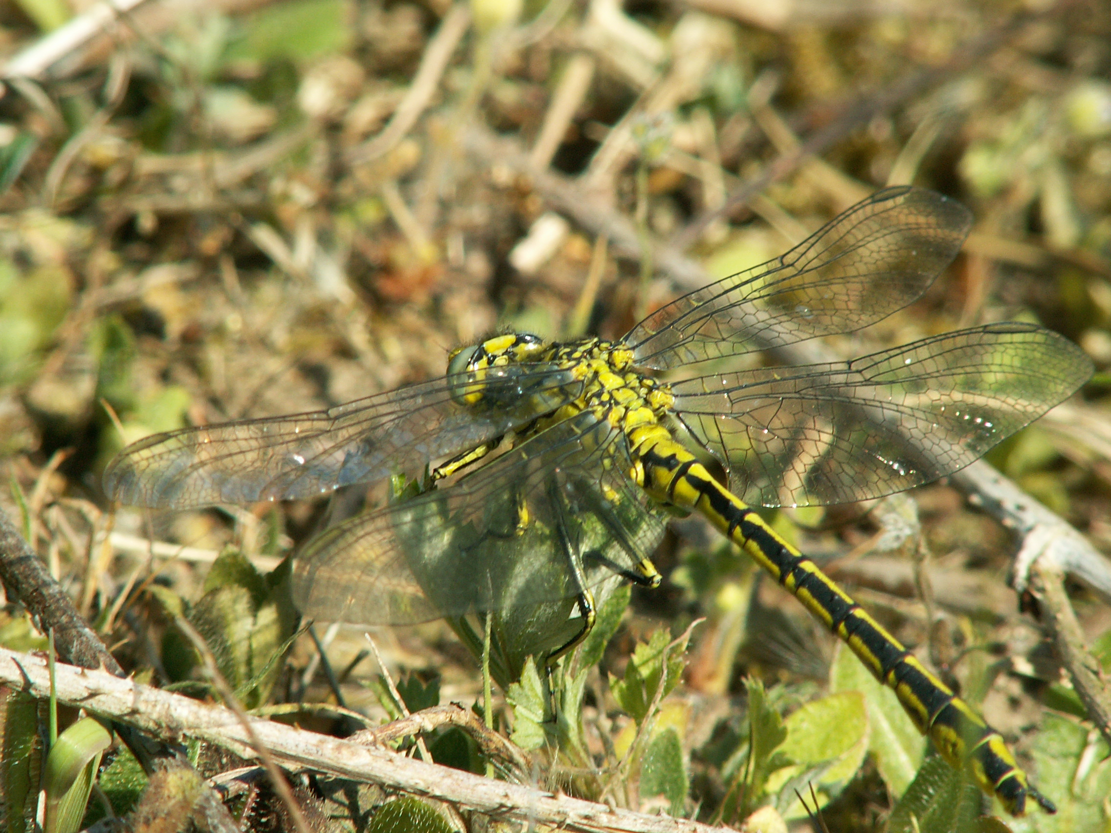 Western Cubtail (Gomphus Pulchellus) Utrecht, the Netherlands